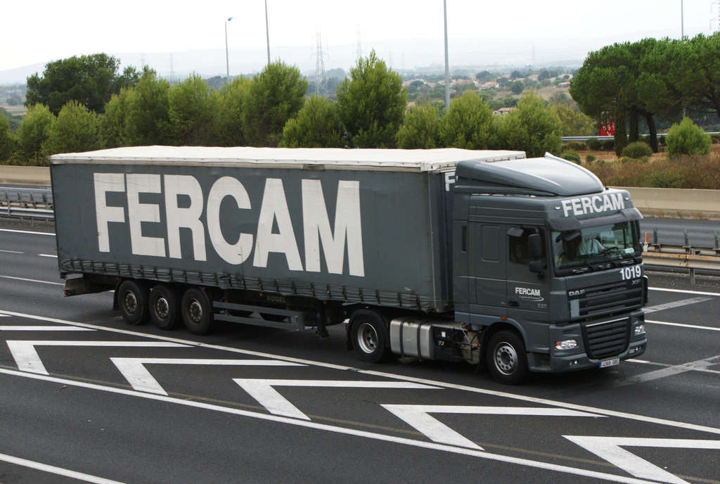 Fercam, DAF XF105